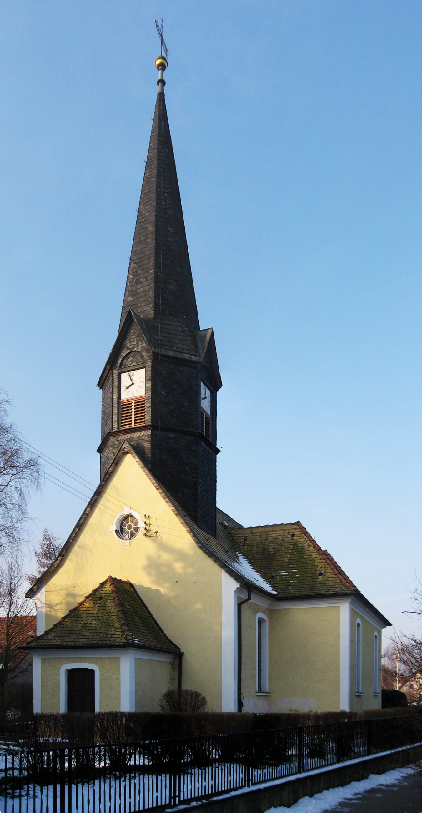 Church Leipzig-Miltitz, Miltitzer Dorfstrasse 11